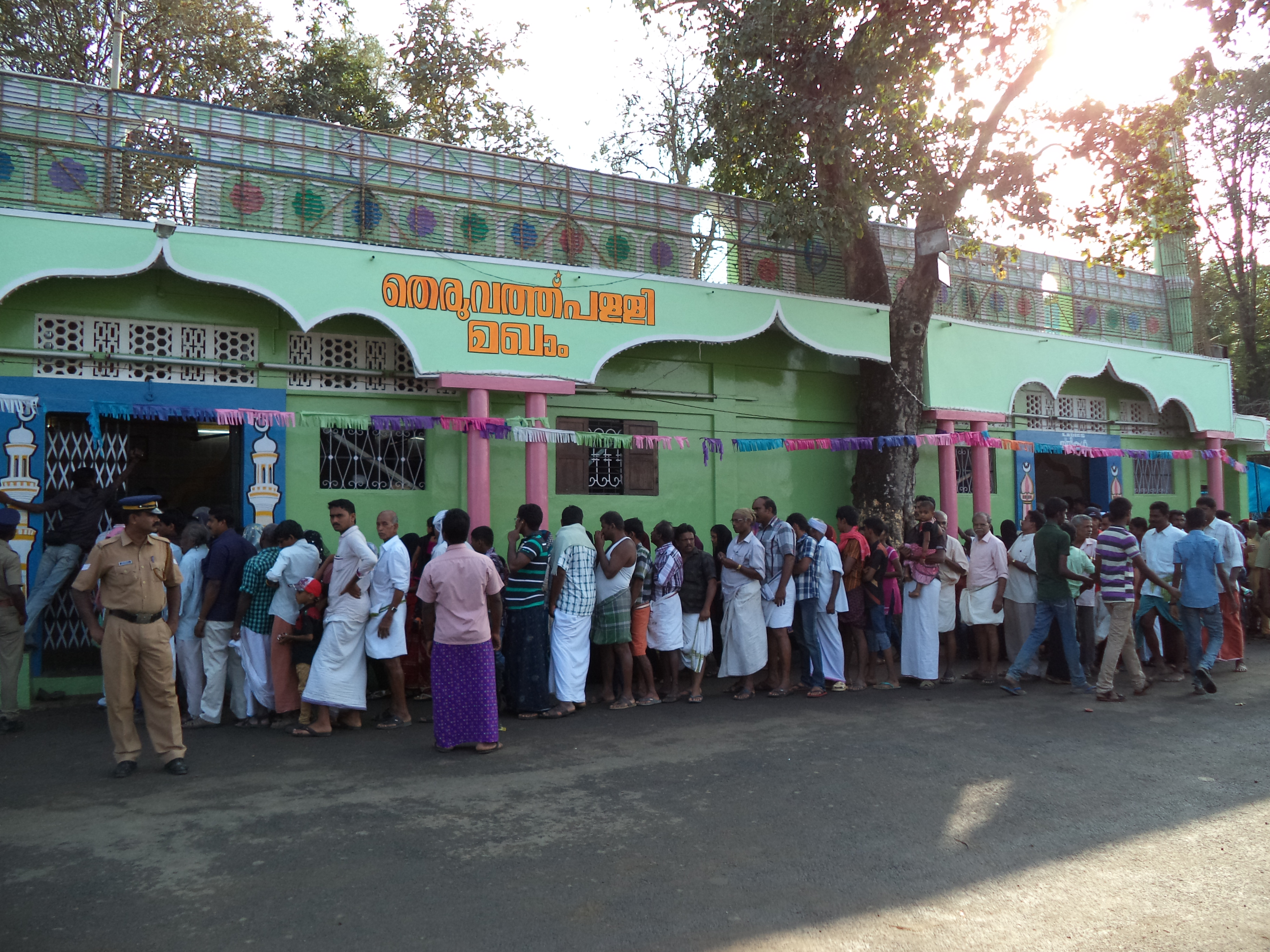 തെരുവത്ത് പള്ളി മഖാം.